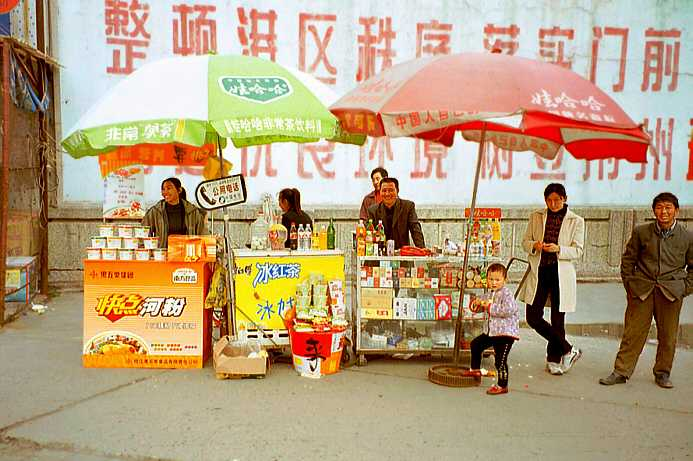 street scene on the streets of Shashi, China